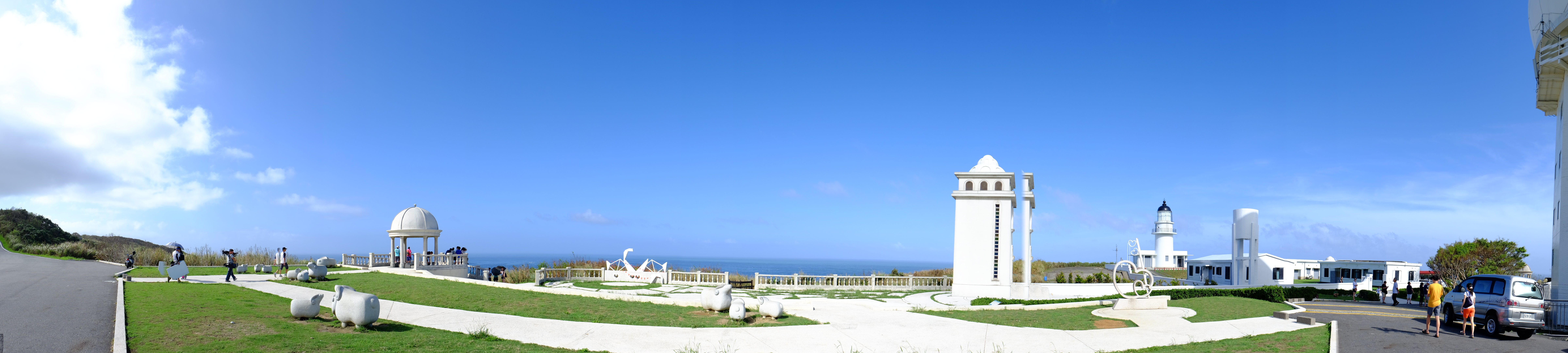 Cape San Diego Lighthouse